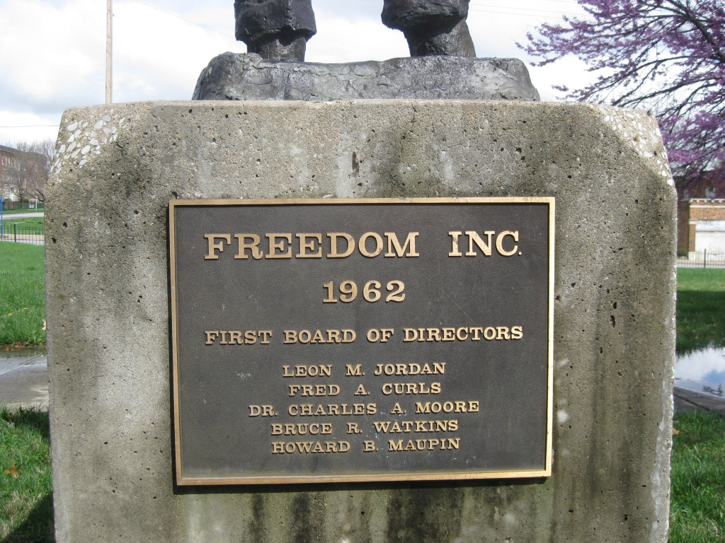 Photo of plaque on rear of statue's base at Leon M. Jordan Memorial Park in Kansas City, Missouri, March, 2012.